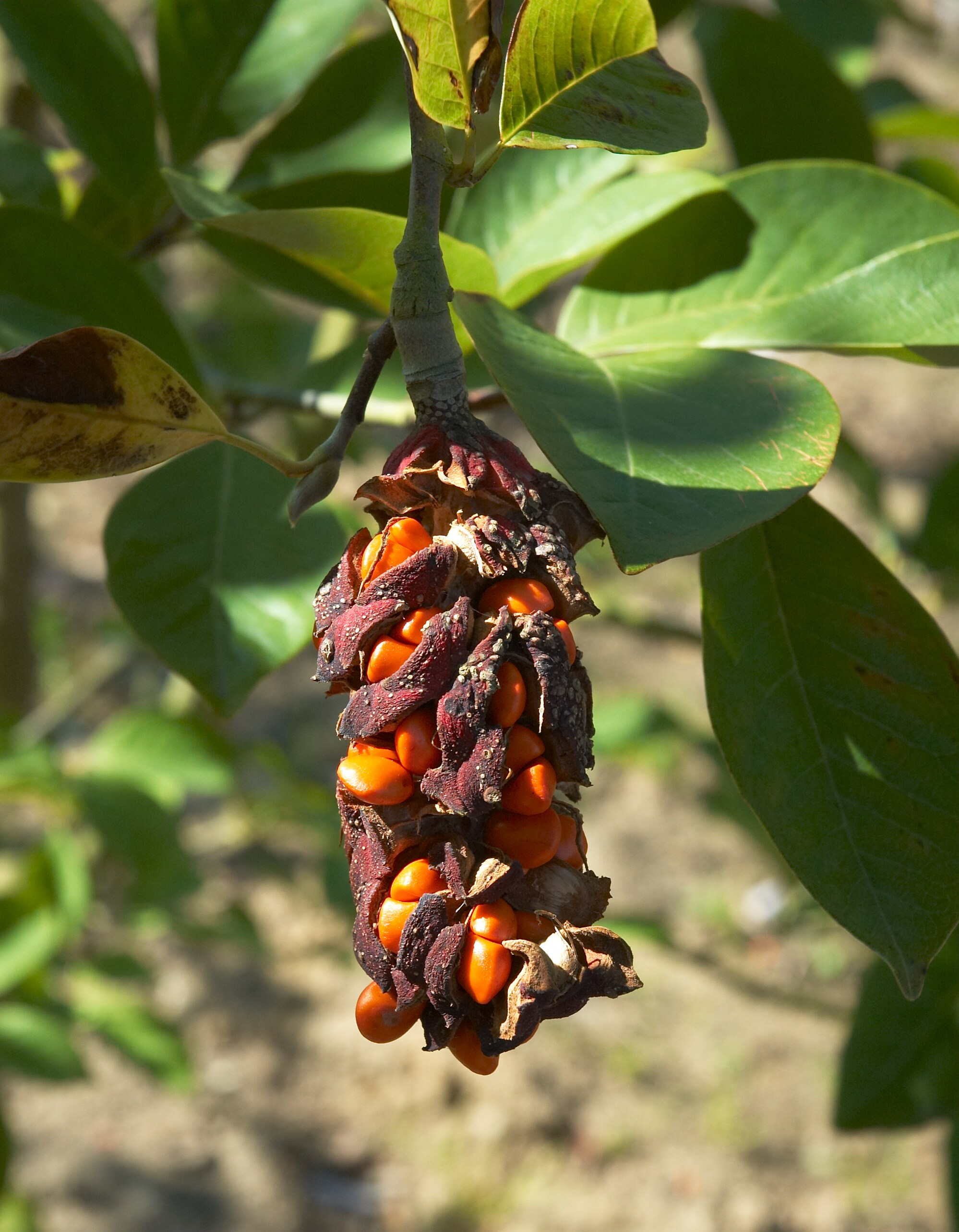 Magnolia cylindrica fruit. The photo has been taken in Belgium.